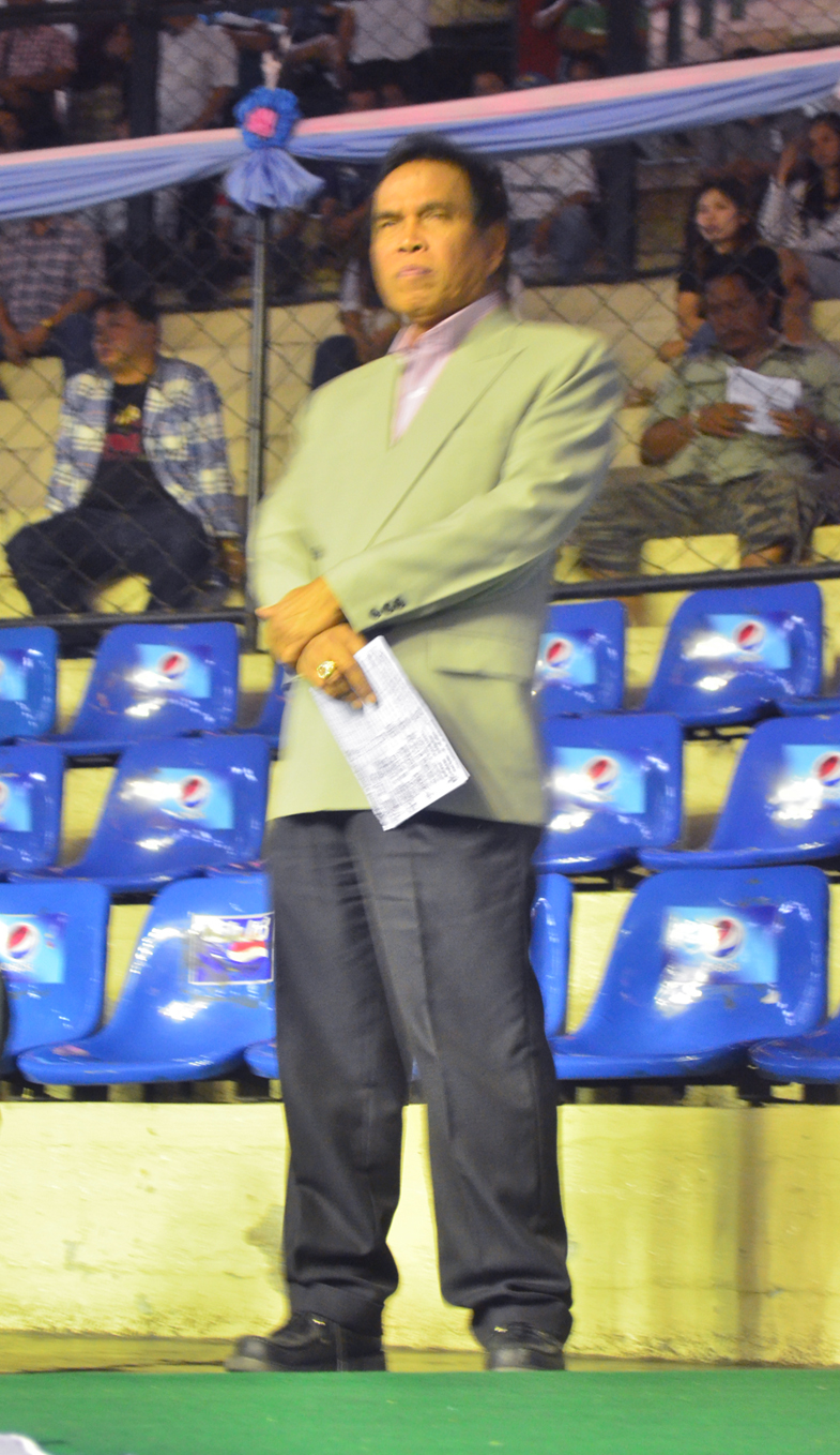 Samingkhao